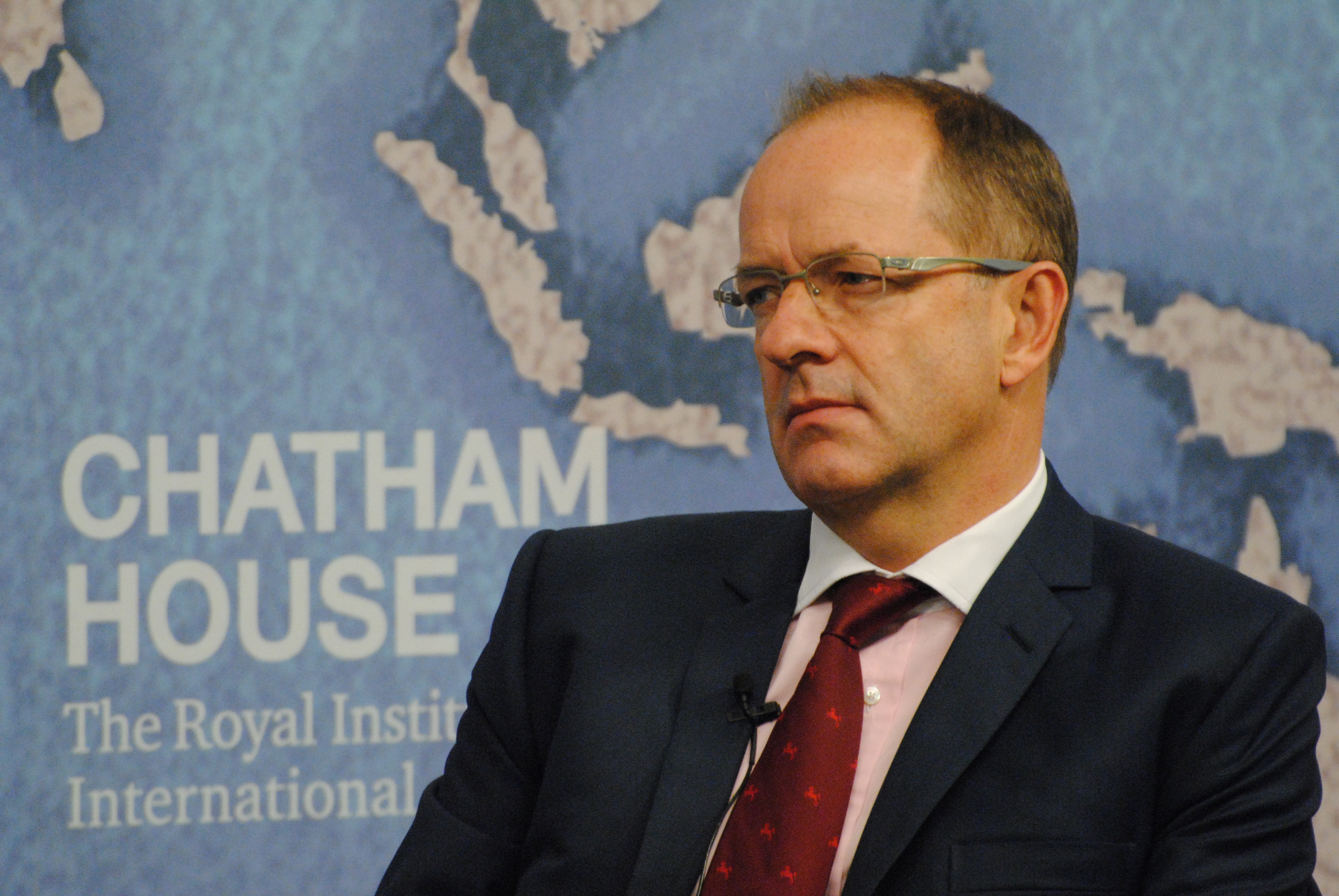 Andrew Witty, CEO of GlaxoSmithKline at Chatham House